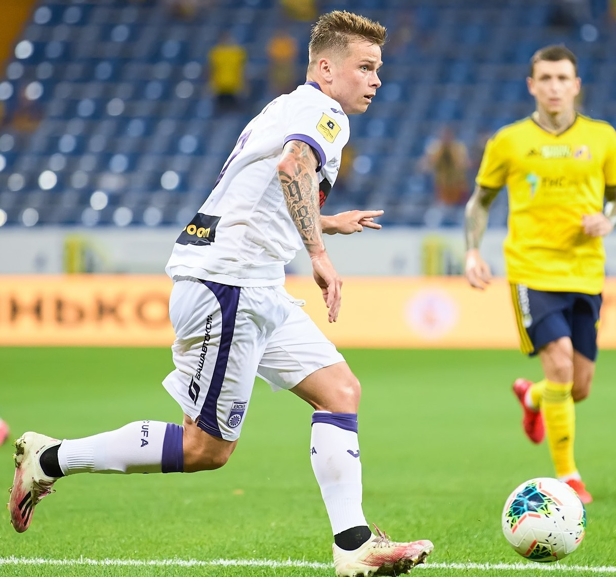 Danil Krugovoy with FC Ufa in a game against FC Rostov.